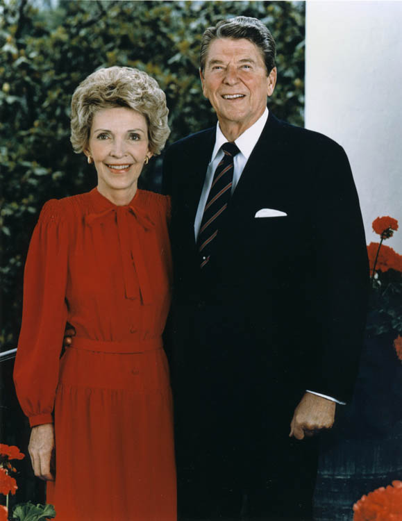 Official Portrait of The Reagans, 1985.